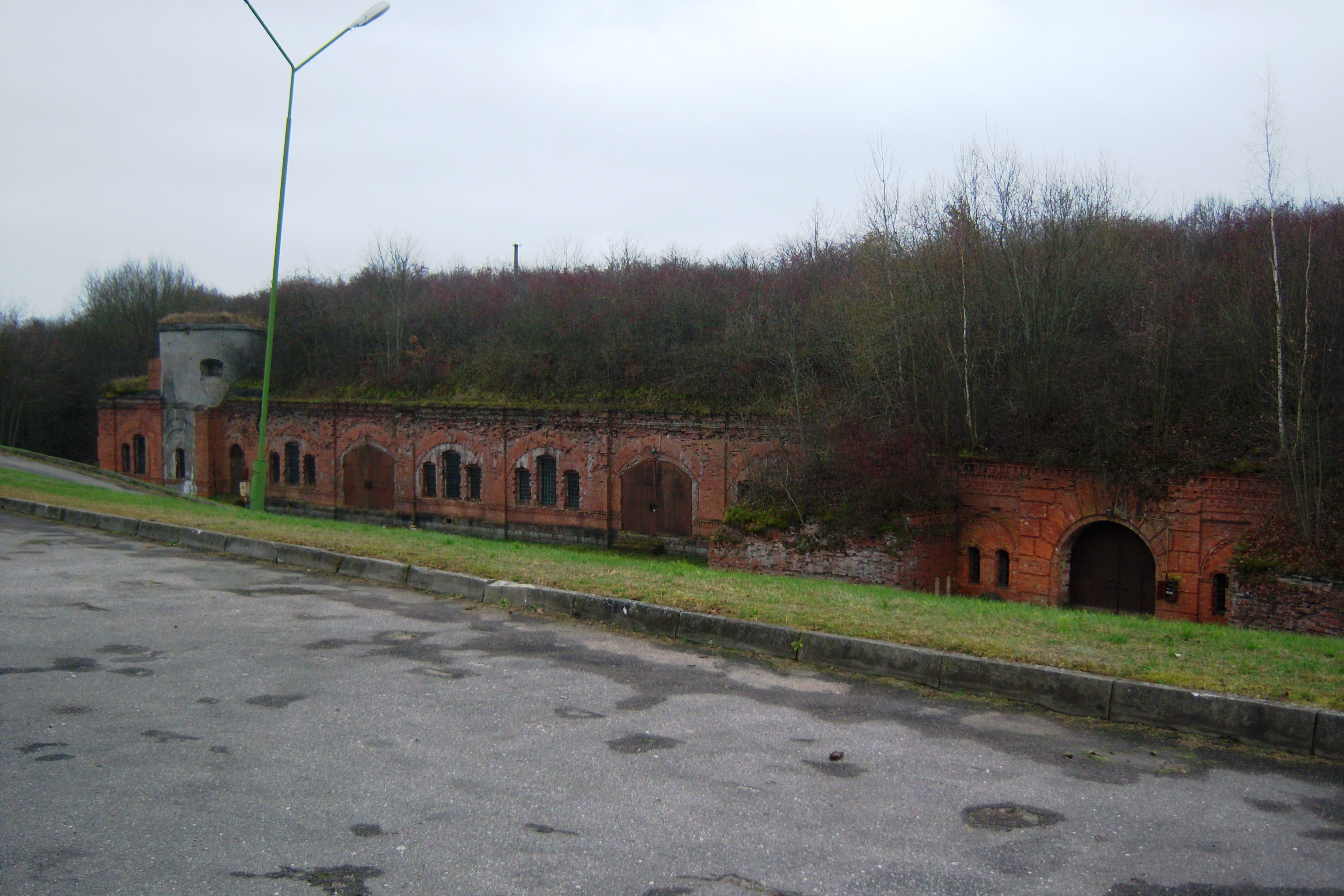 3-rd Fort of Kaunas Fortress in Kaunas, Lithuania